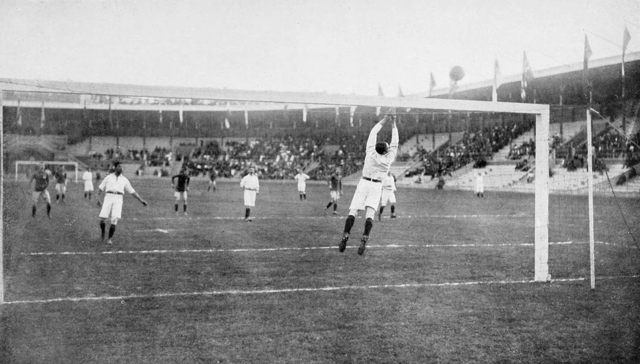 Match played between Netherlands and Sweden during the first round of the football competition at the 1912 Summer Olympics.